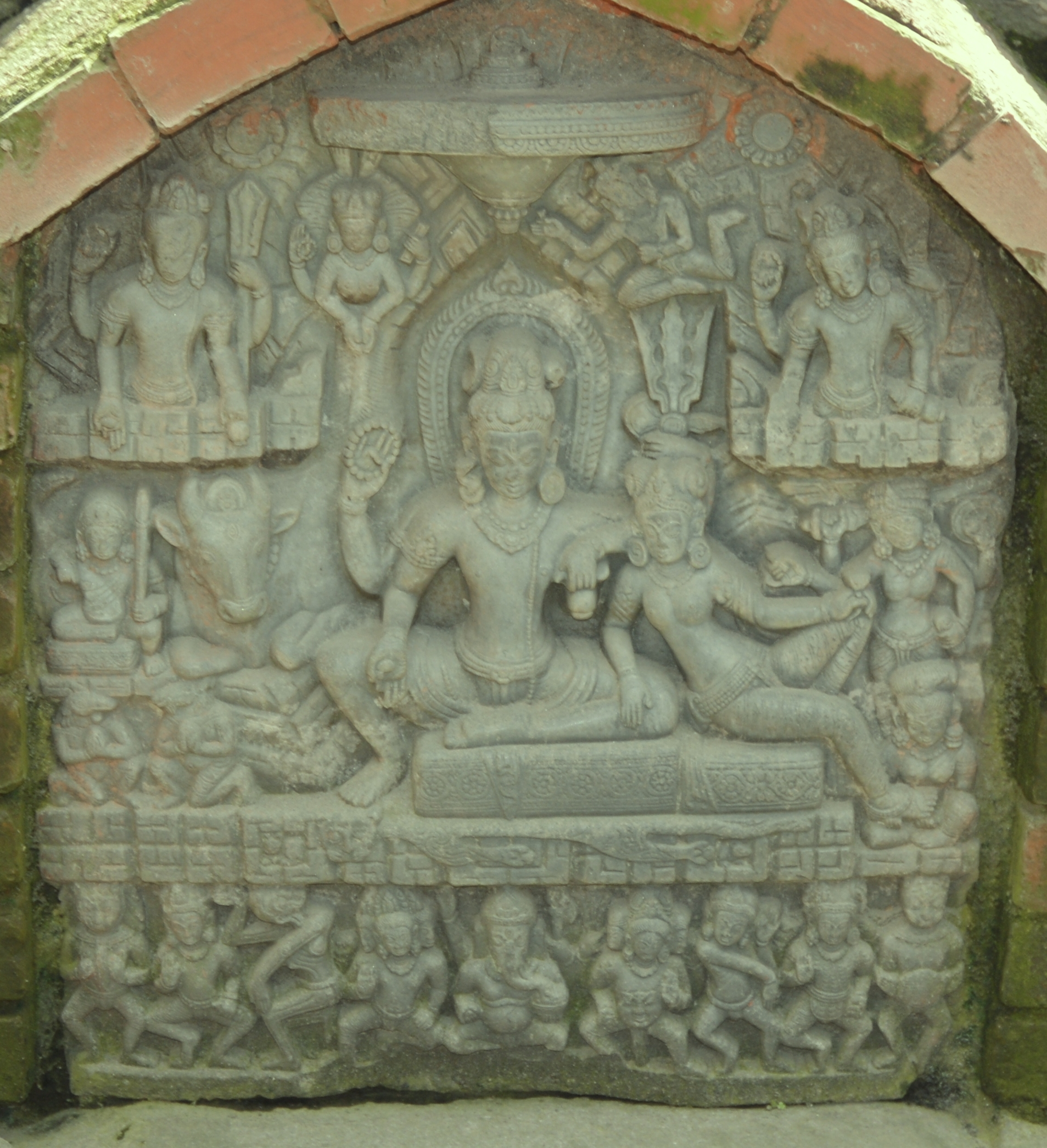 The divine family at home on Mount kailash The image of the divine couple,Uma-Maheshwor has been one of the most popular theme among Nepalese stone sculptures for more than a thousand years. In this,Shiva is seated in the typical pose,his left leg resting on the seat and his right leg pendant, he gently caresses Uma with one of his hands. In his right ,upper hand he holds a strand of his own locks onto which Ganga,the river goddess, pours water from her folded hands. The bull Nandi, Shiva's mount,peers between him and one of his sons,Kumara, who is holding a lance, Shiva's other son ,the elephant headed Ganesha, leads a troupe of ganas who make merry for pleasure of the divine couple above.